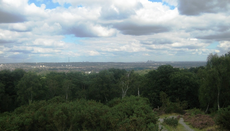 Part of the view north towards London from the Addington Hills viewpoint